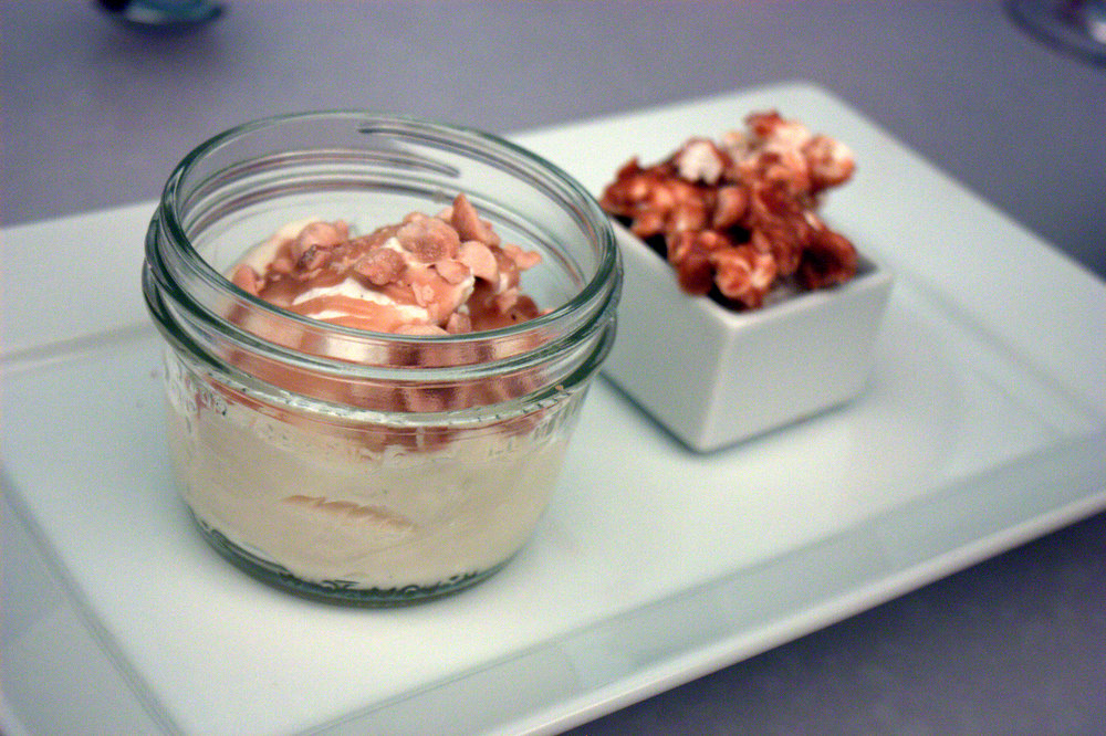 Get the full scoop